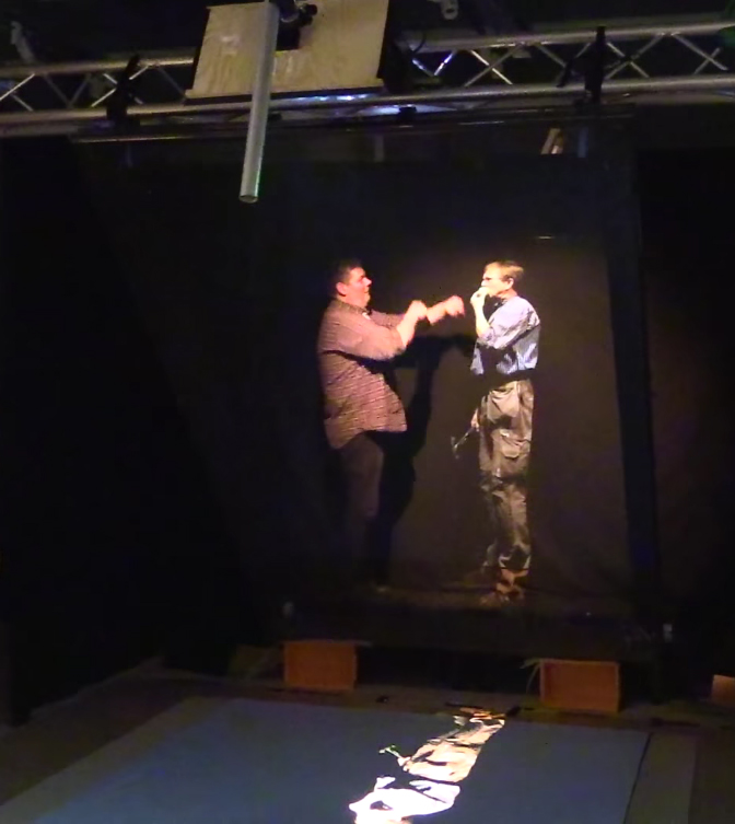 For four days Riksutställningar ran a workshop where participants from a handful of institutions got acquainted and experiment with Pepper's Ghost - a technology that provides a hologram-like effect.